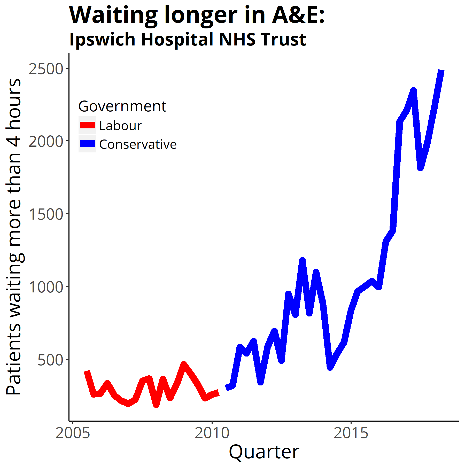 Four-hour target in the emergency department quarterly figures from NHS England Data from